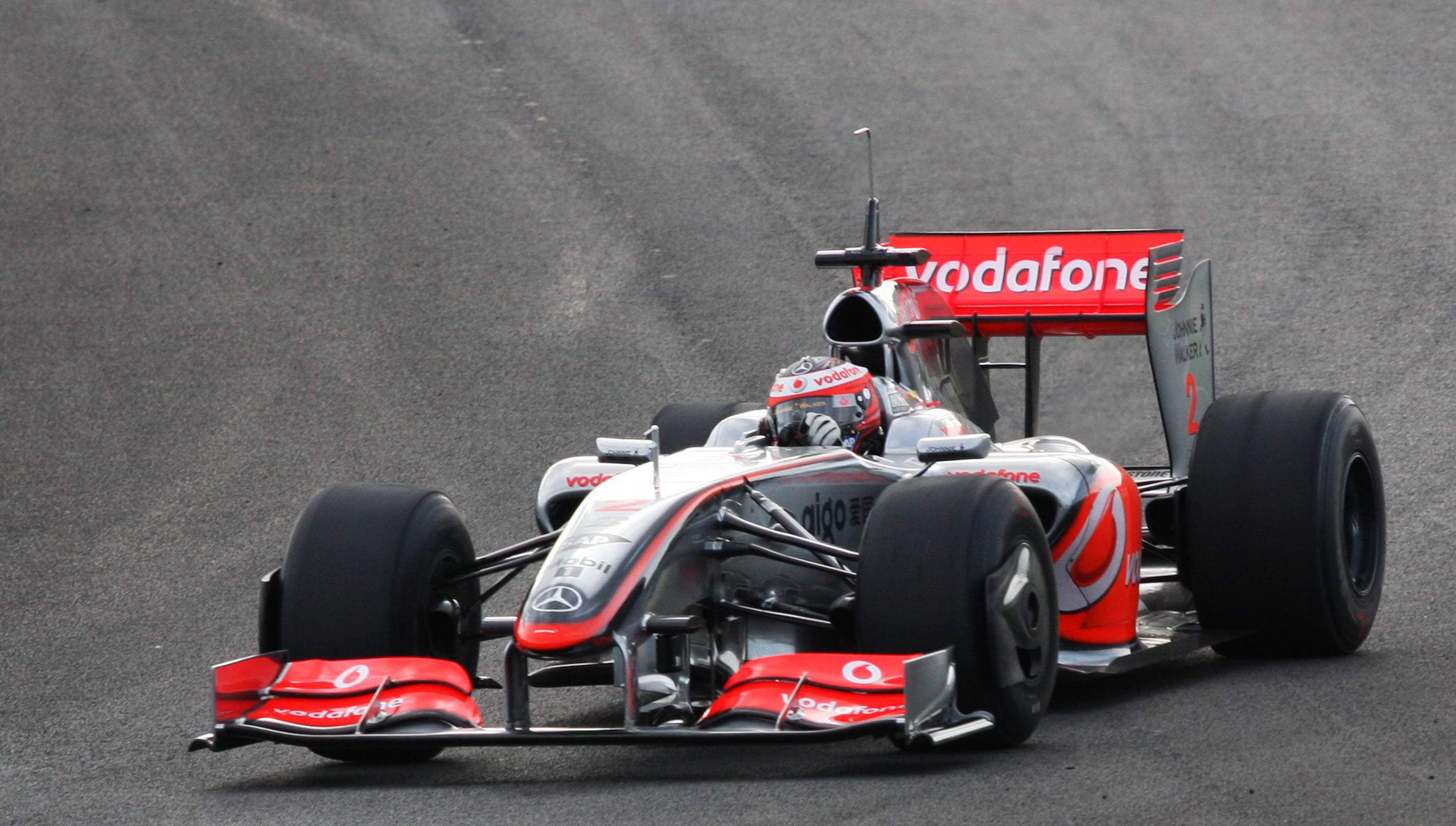 Heikki Kovalainen w McLaren MP4-24, podczas serii testowej F1 , Jerez 10 luty 2009